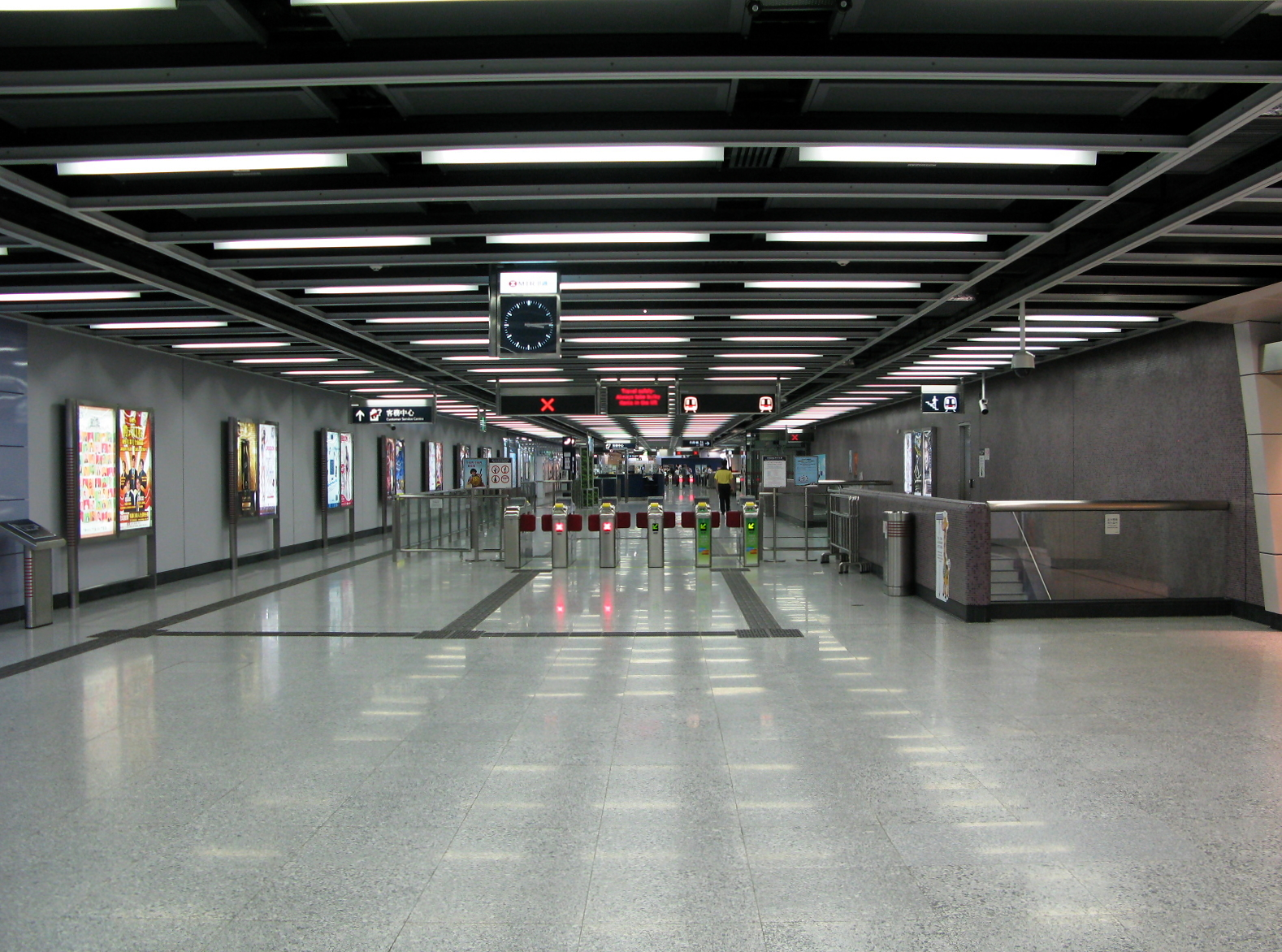 HK Lohas Park Station 康城站 (香港)